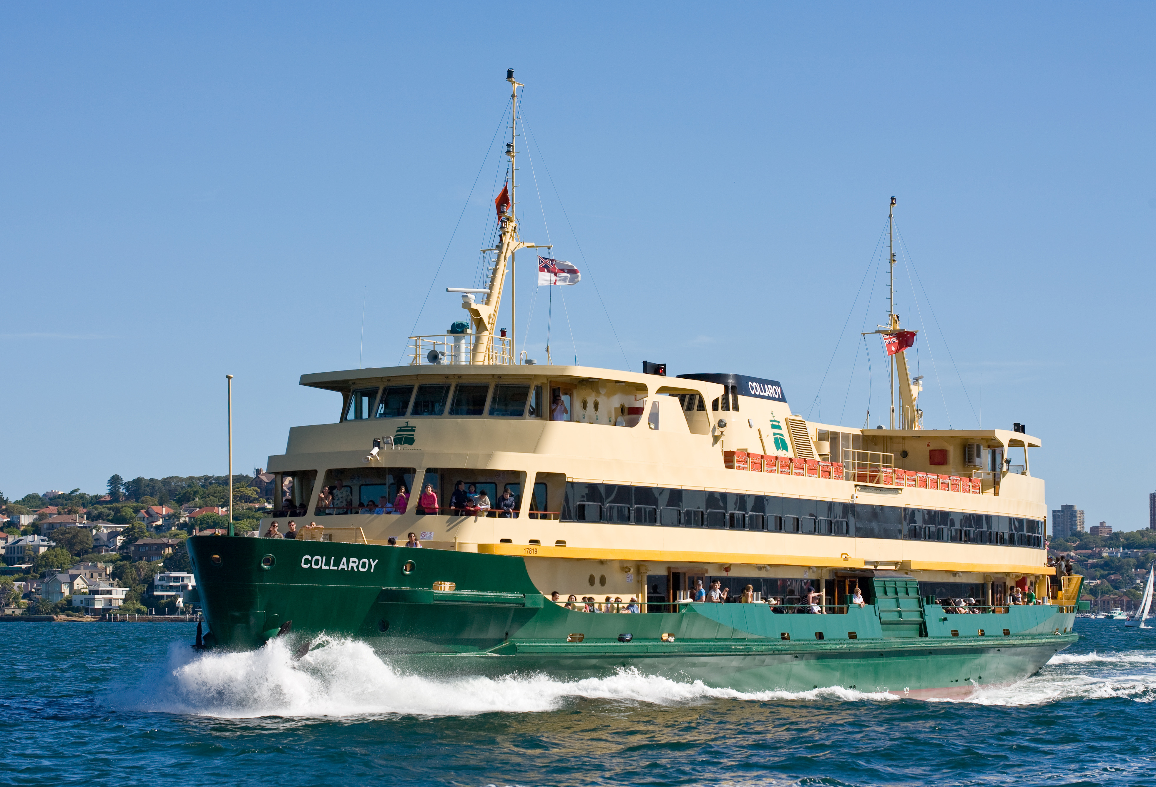 The Sydney Ferries 'Collaroy' servicing the Circular Quay-Manly route in Sydney, Australia.